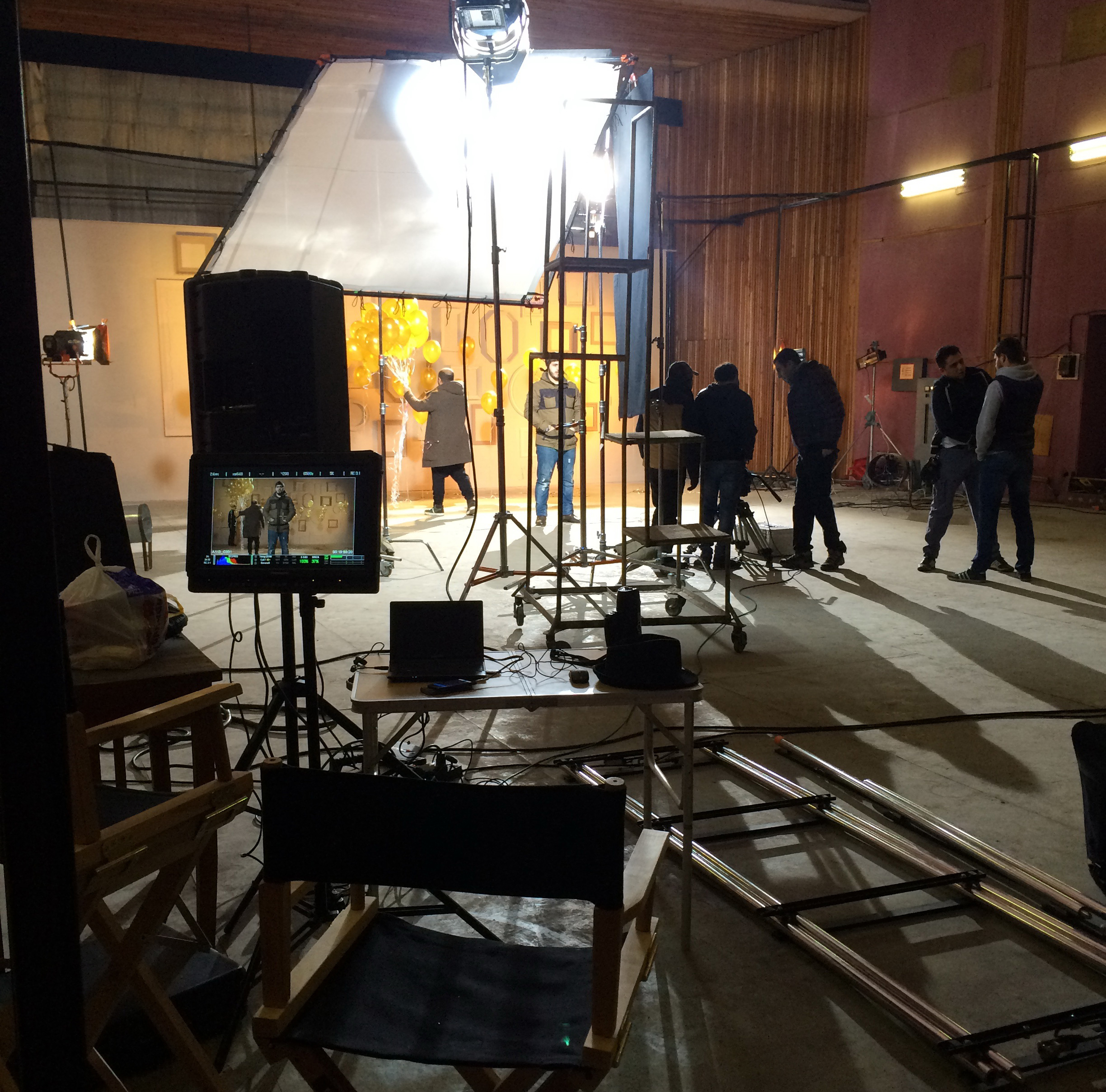 Meloyan Backstage 3